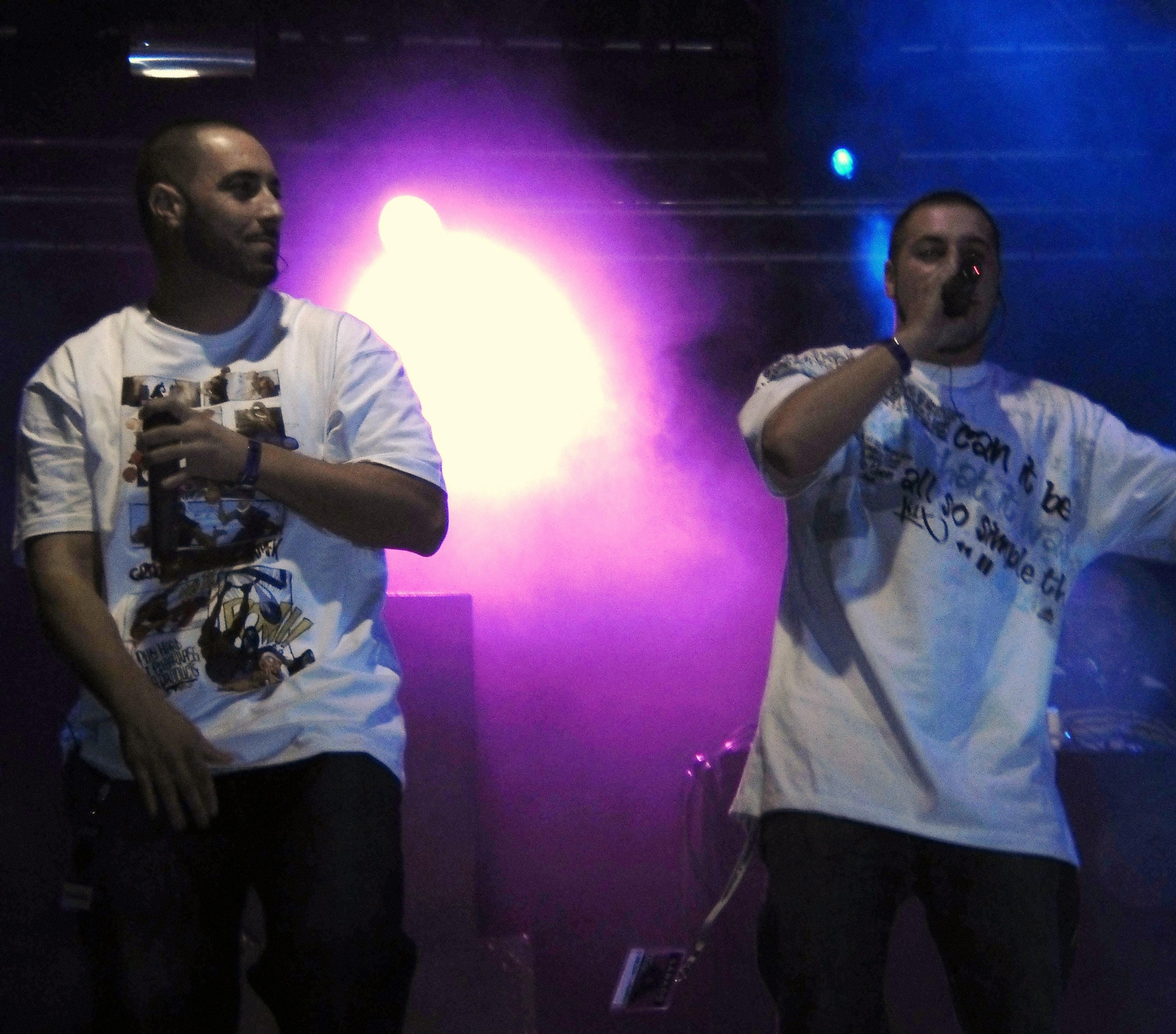 Falsalarma is a Spanish rap group from Barcelona. The group comprises El Santo, Titó and Dj Neas.